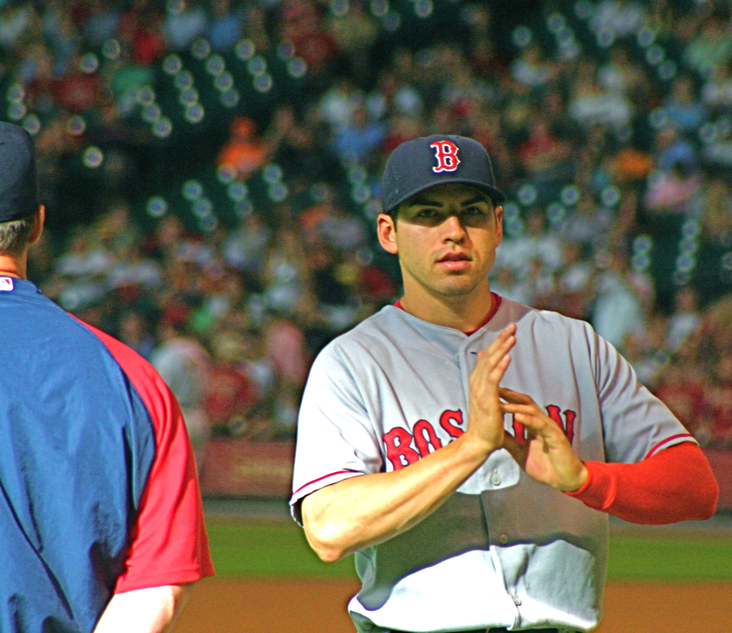 Jacoby Ellsbury 01:32, 23 July 2008 . . PhreddieH3 . . 2,350×2,033 (1.32 MB)